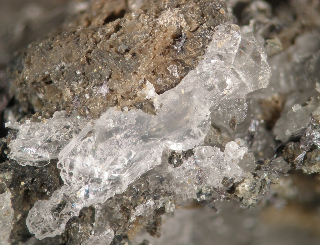 Evenkite (Field of view is 8 mm) Locality: Slávik adit, Dubník, Červenica, Prešov Co., Prešov Region, Slovakia Original description: Aggregates of colourless evenkite in vugs of altered andesite. Evenkite was confirmed by PXRD (it is nearly impossible to prepare powder from this species :-D). Photo and collection: Martin Števko.